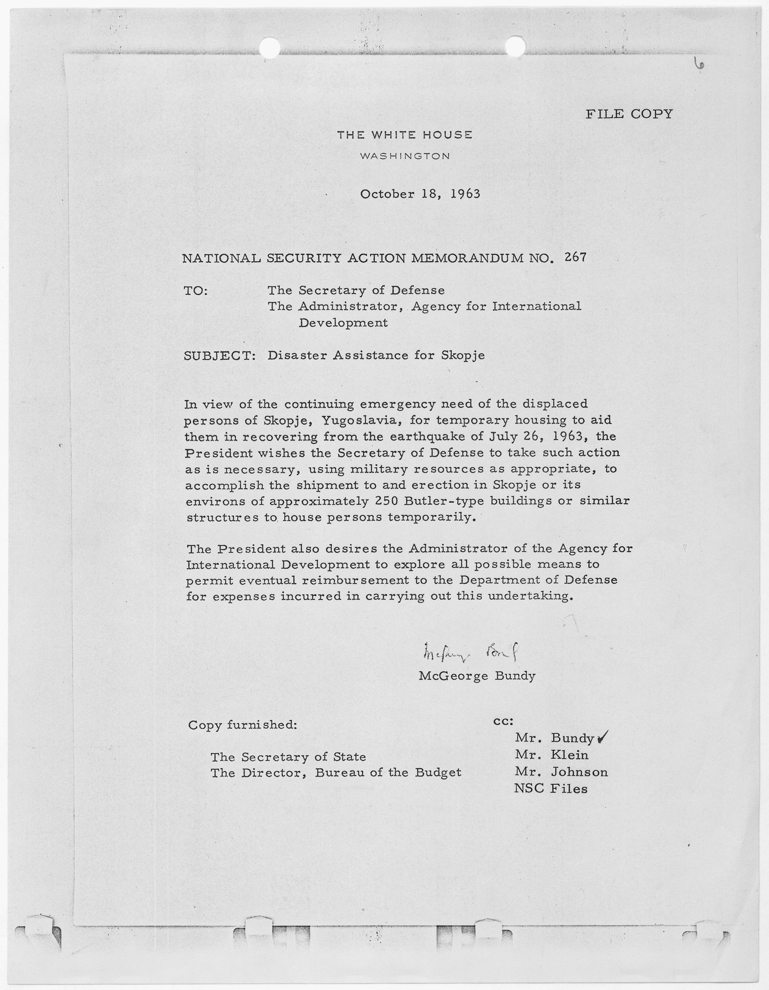 Scope and content: Memorandum for Secretary of Defense, Administrator, Agency for International Development concerning aid for the earthquake victims in Skopje, Yugoslavia.